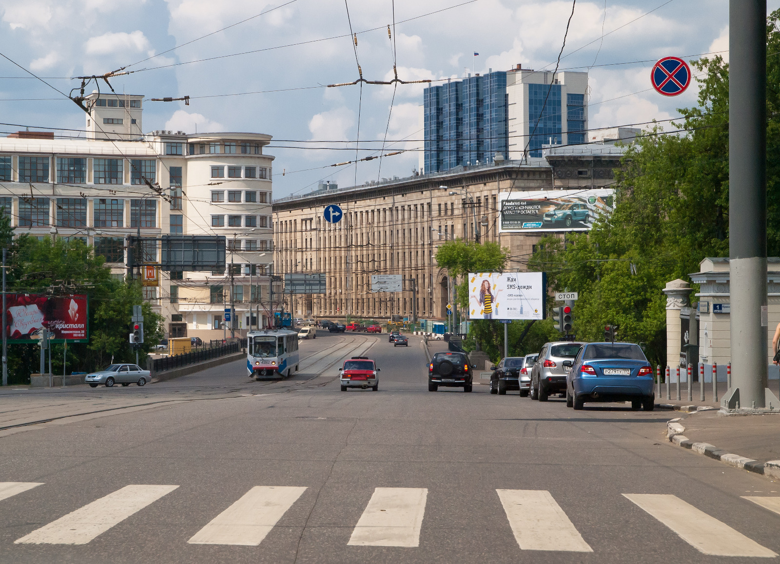 Krasnokazarmennaya Street. Moscow.